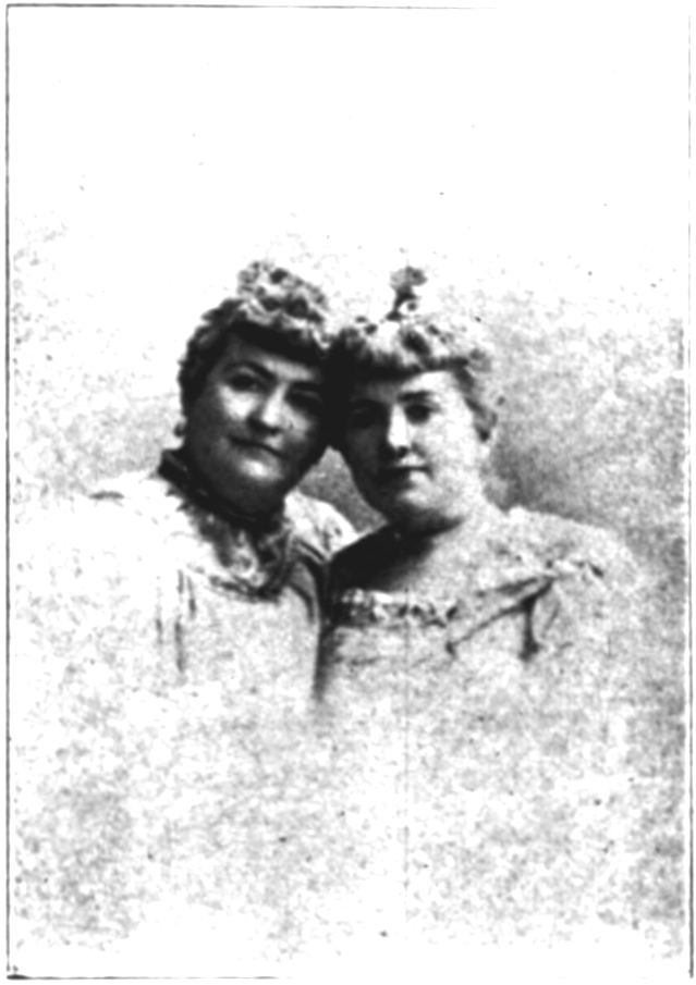 The Bangs Sisters spiritualist mediums.